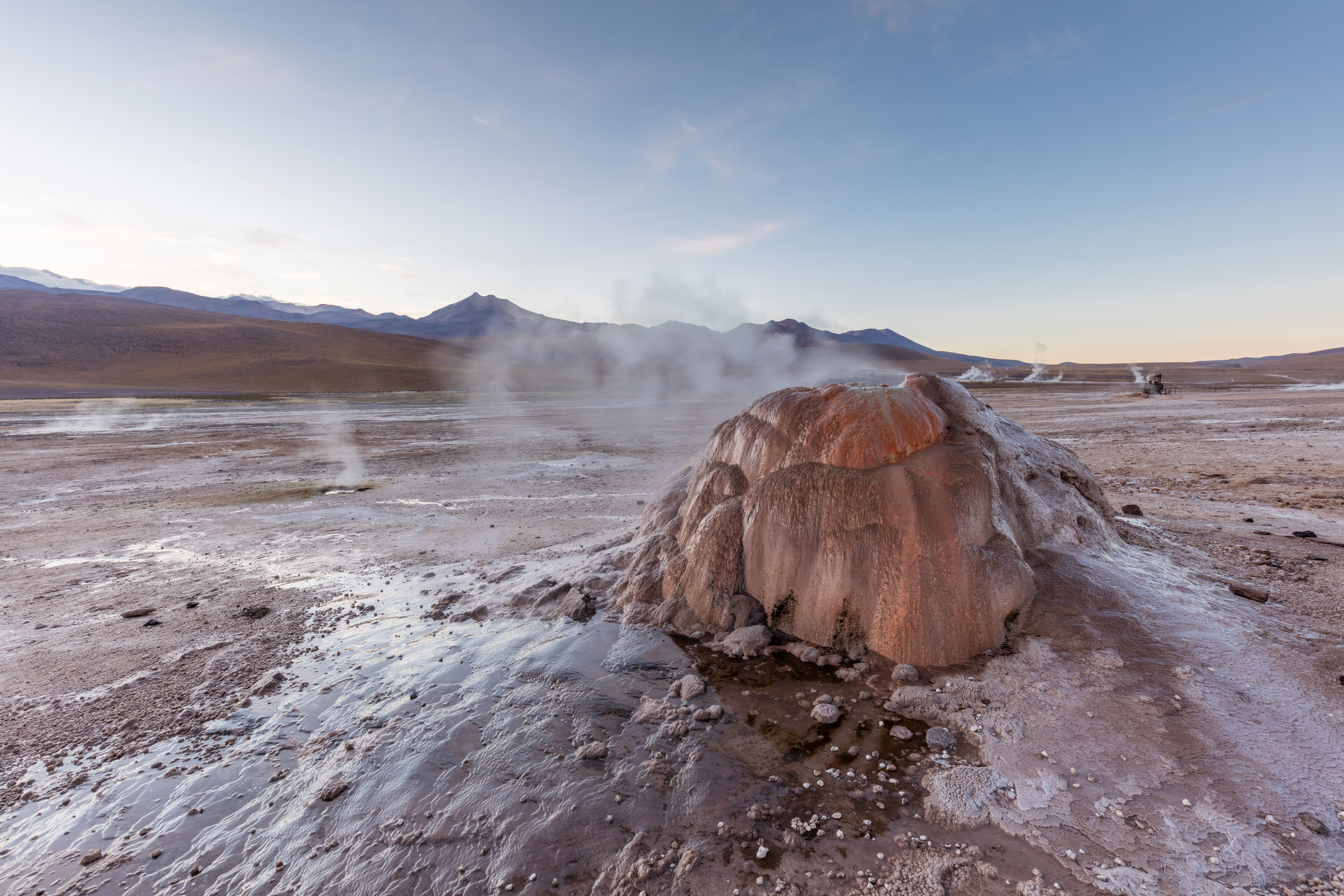 Close-up of a geyser in El Tatio, north of Chile, within the Andes Mountains near the Bolivian border. El Tatio is a geyser field at 4,320 meters above mean sea level and one of the highest-elevation geyser fields in the world. The field has over 80 active geysers, making it the largest geyser field in the southern hemisphere and the third largest in the world (after Yellowstone in the USA and Kronotsky Nature Reserve in Rusia).